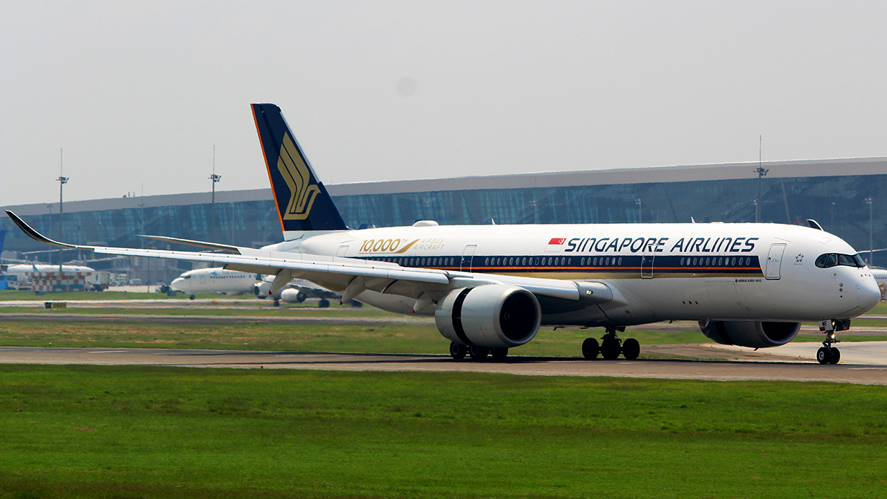 Singapore Airlines Airbus A350-900 in "Airbus 10.000th Aircraft".